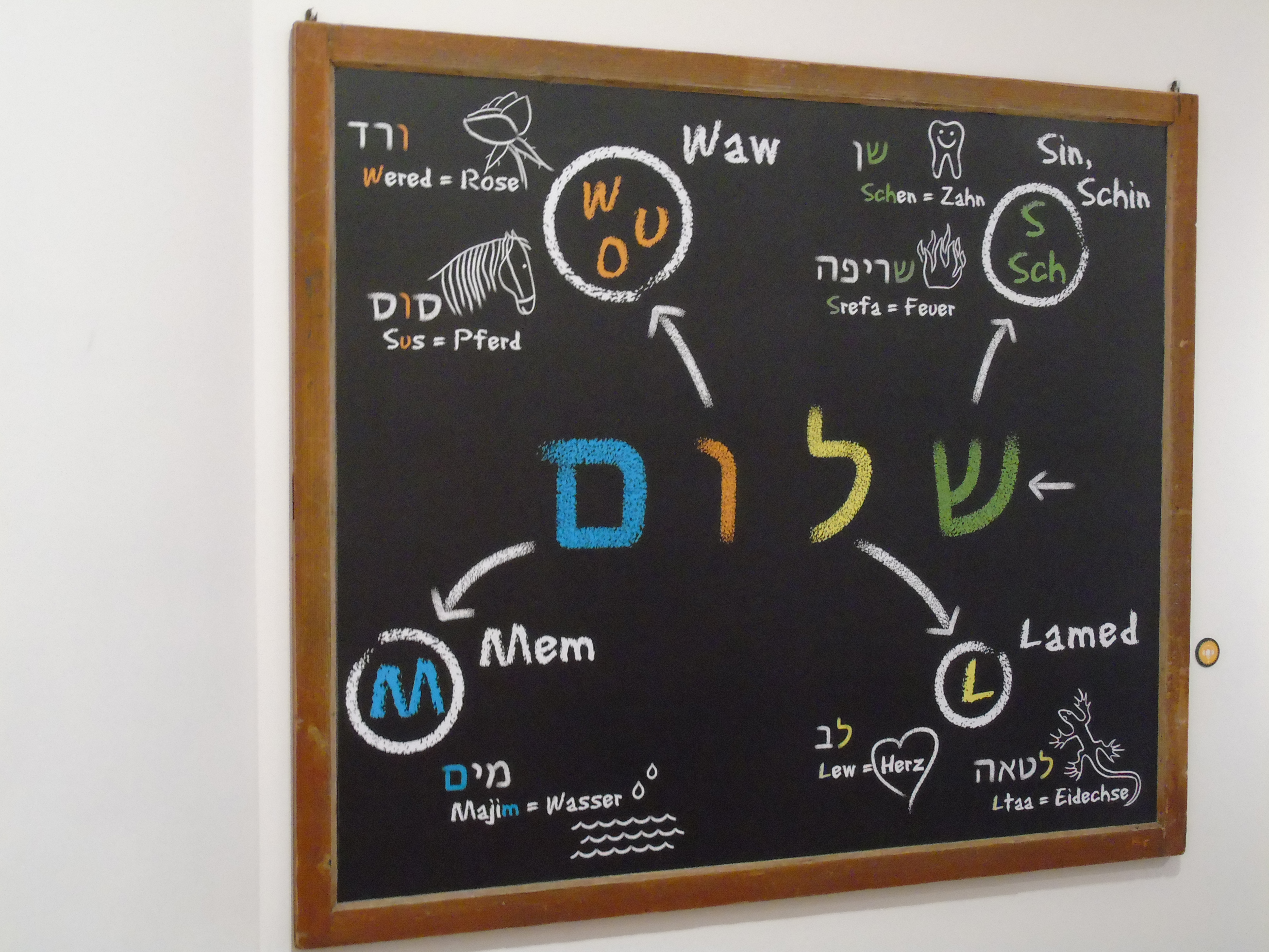 blackboard with the word שלום or shalom, which means peace